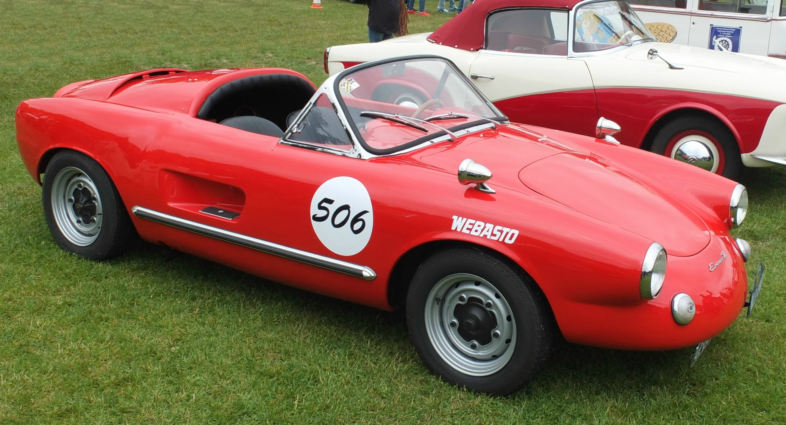 Enzmann 506, built 1957, plastic coachwork on VW-Bug basis.